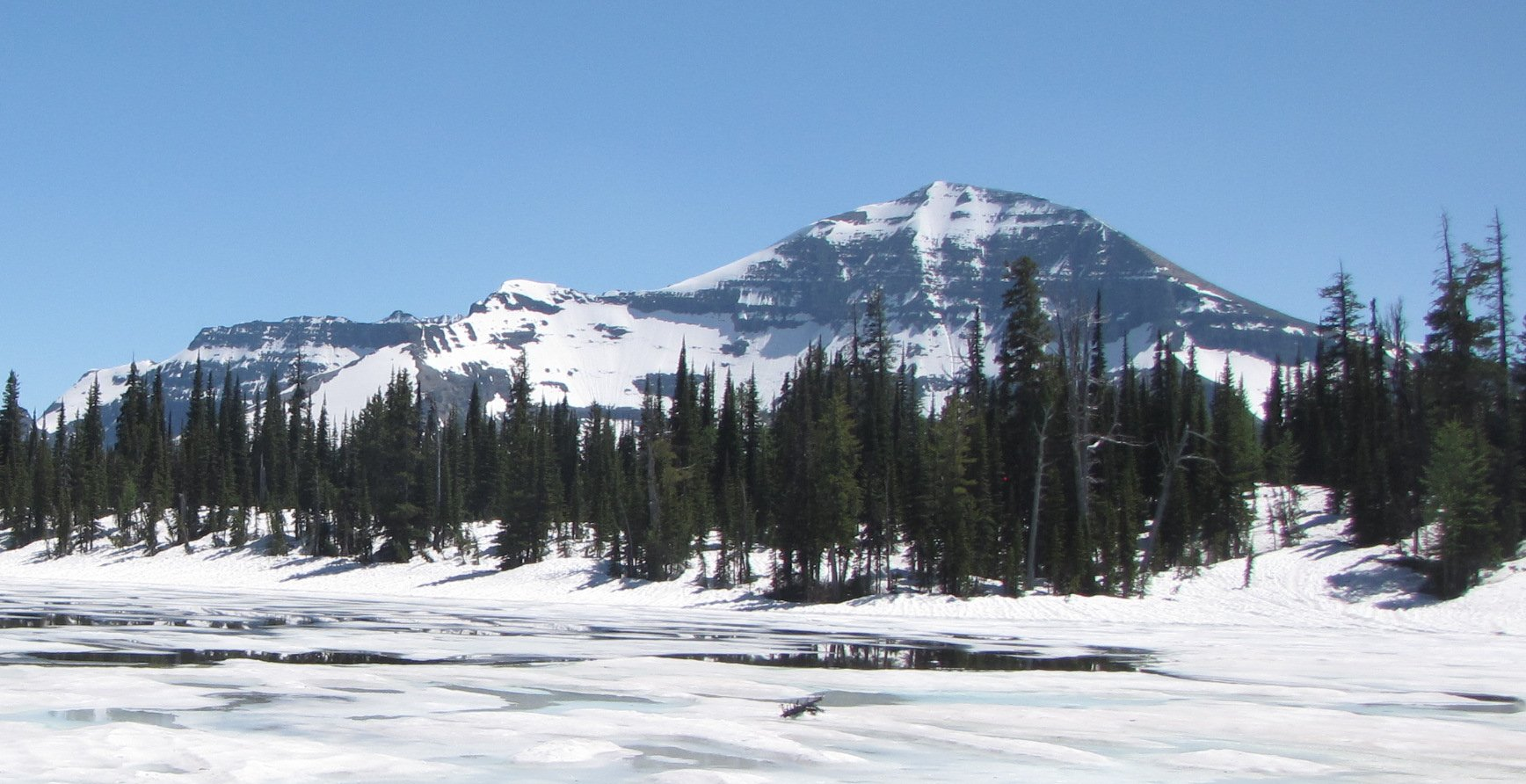 Chapman Peak of the Livingston Range in Glacier National Park, Montana — with Summit Lake in Alberta.